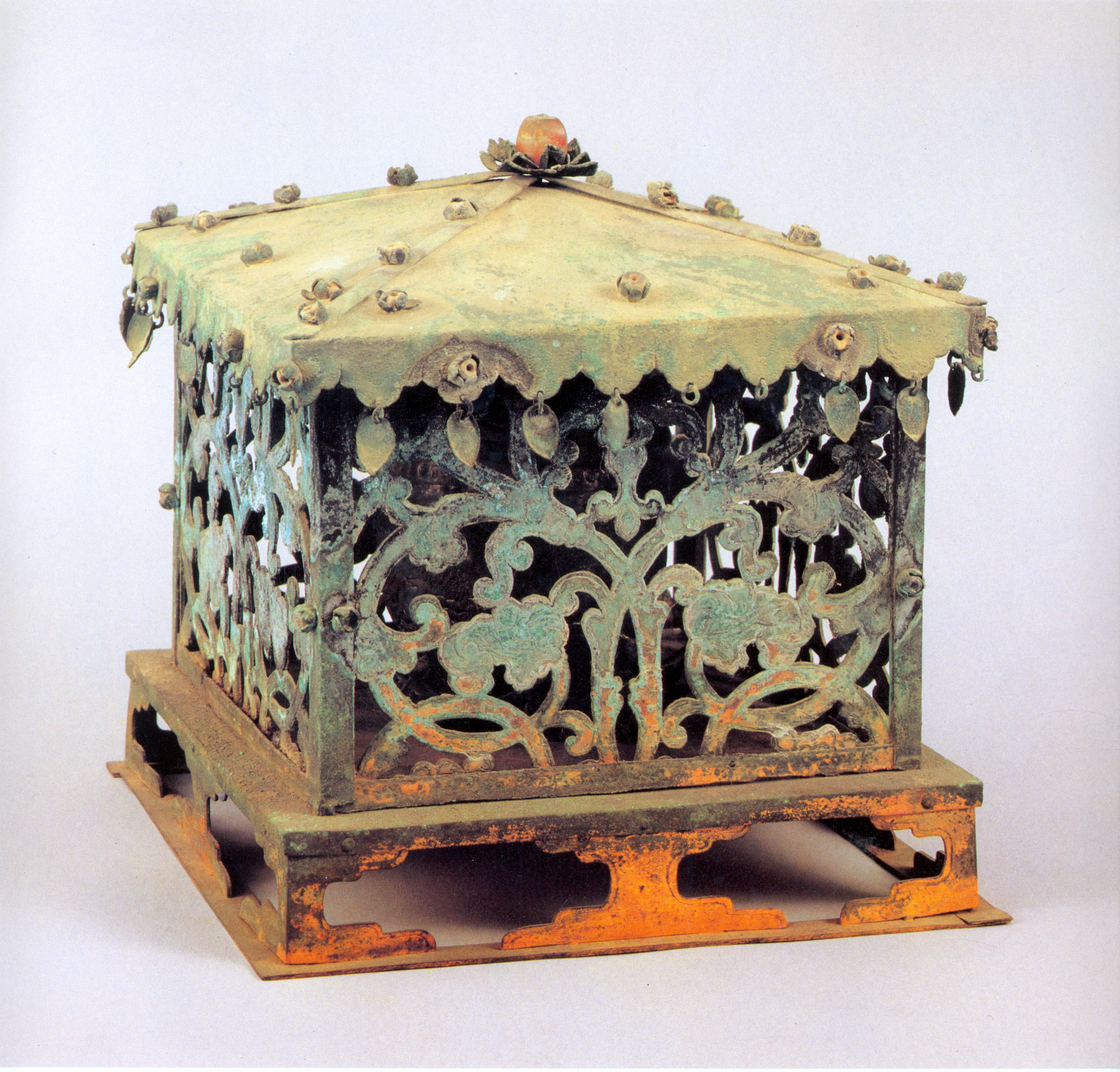 Reliquary of the Three-story Stone Pagoda at Bulguksa temple